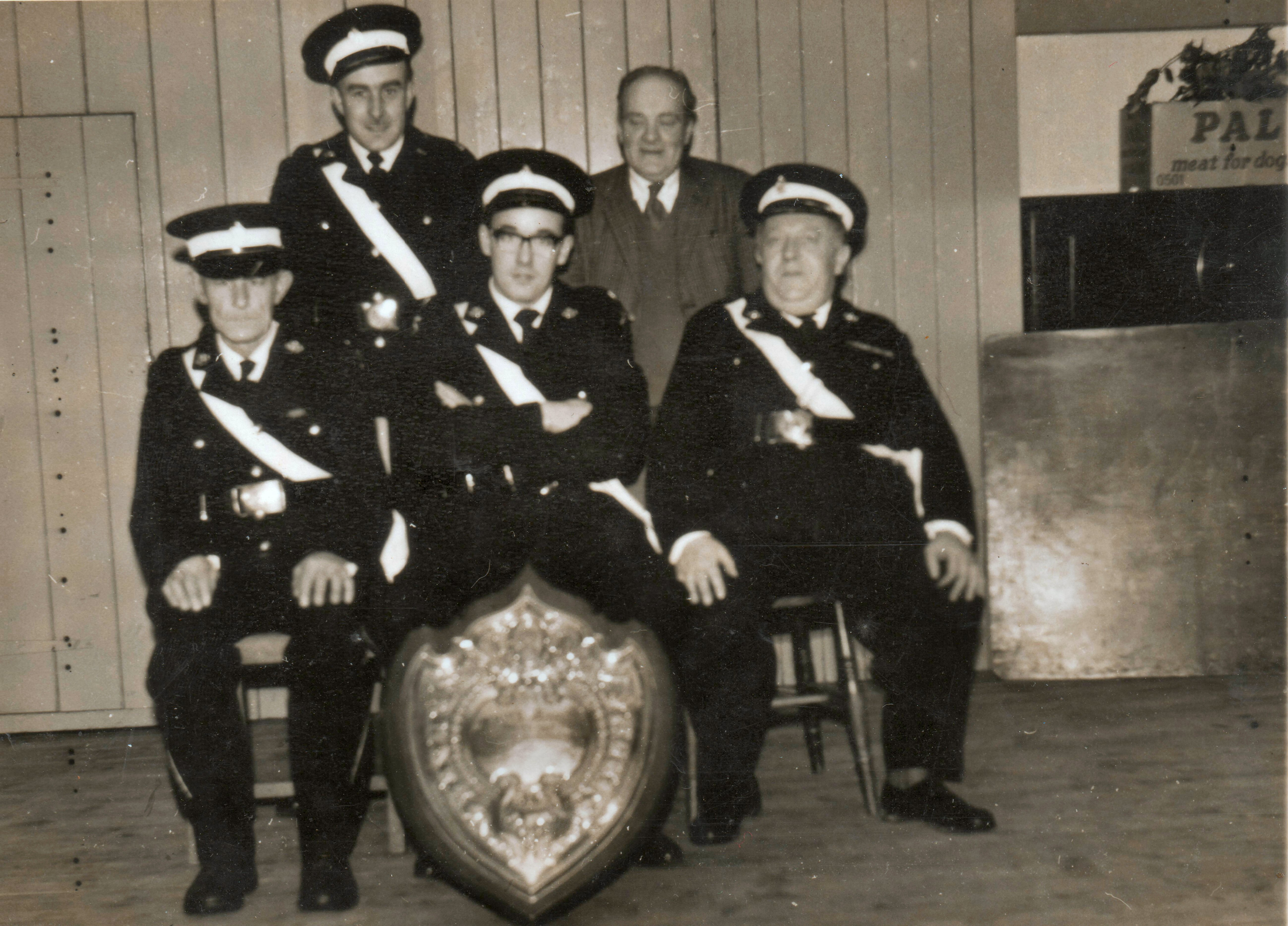 Officers of the Monmouth Brigade of St John Ambulance. Picture taken in the Brigade's HQ in St Mary Street, Monmouth. date unknown (but pre-1976).